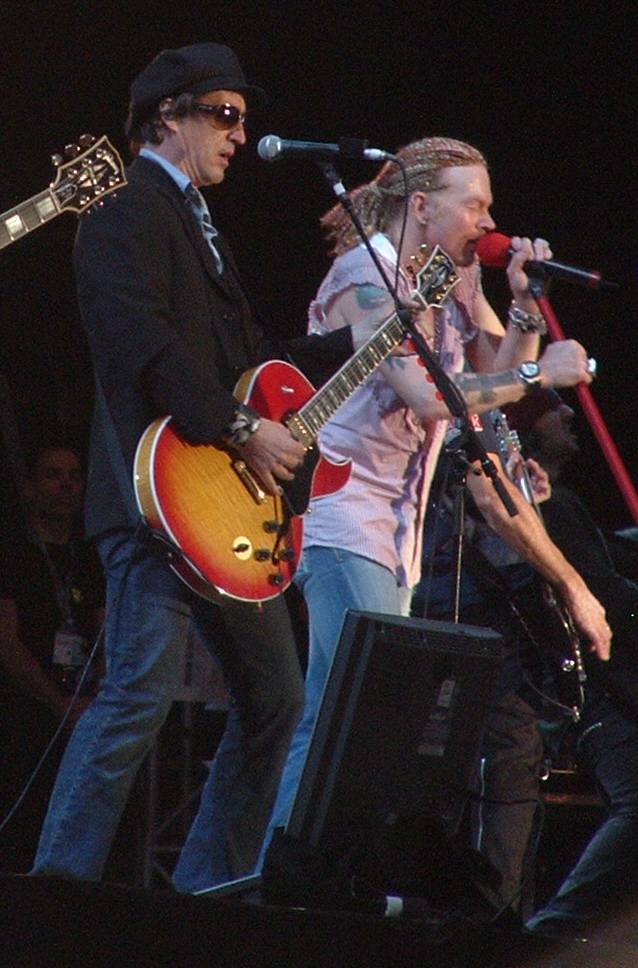 GUNS N' ROSES (Izzy Stradlin and Axl Rose)